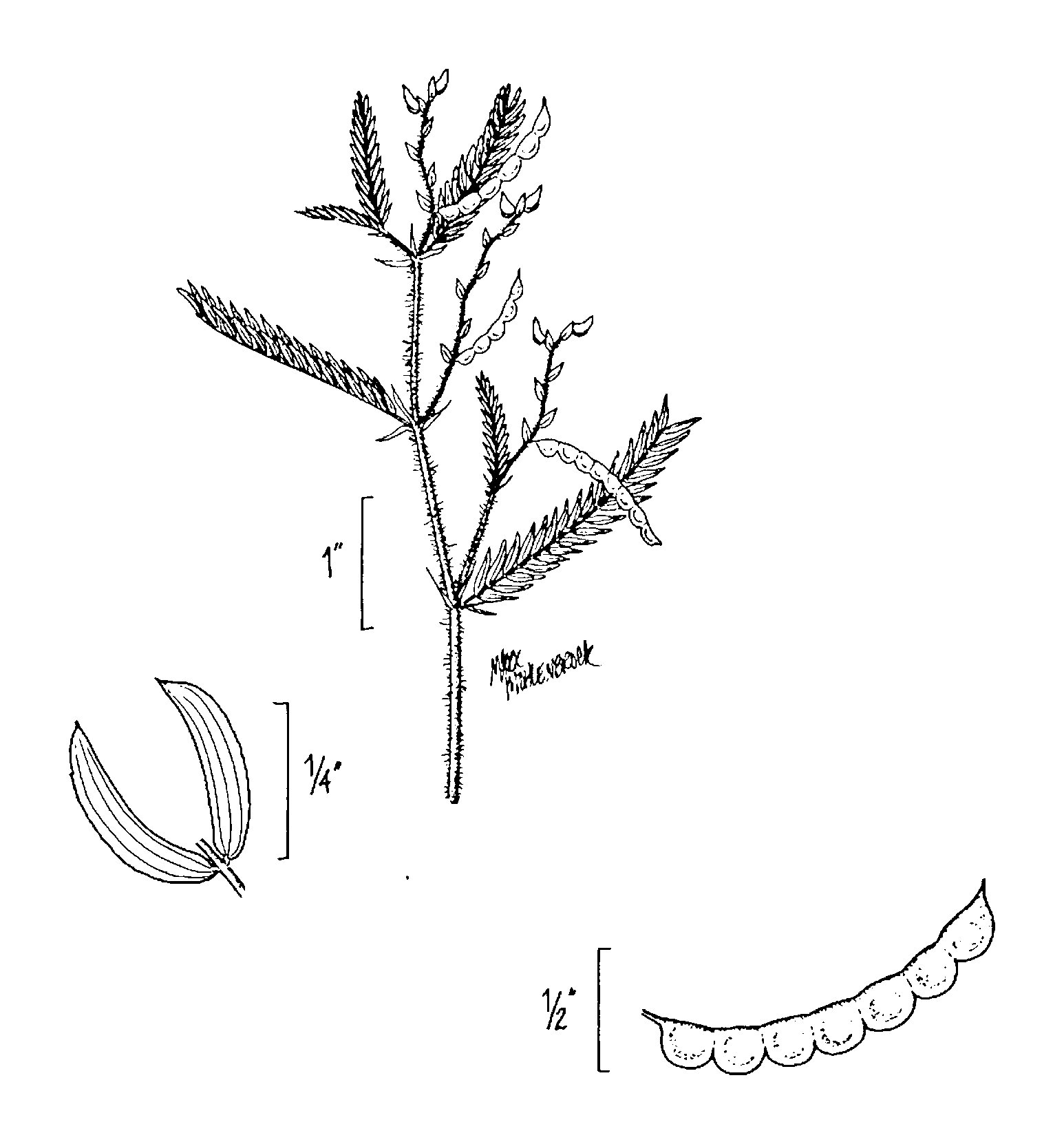 Shyleaf. Drawing.